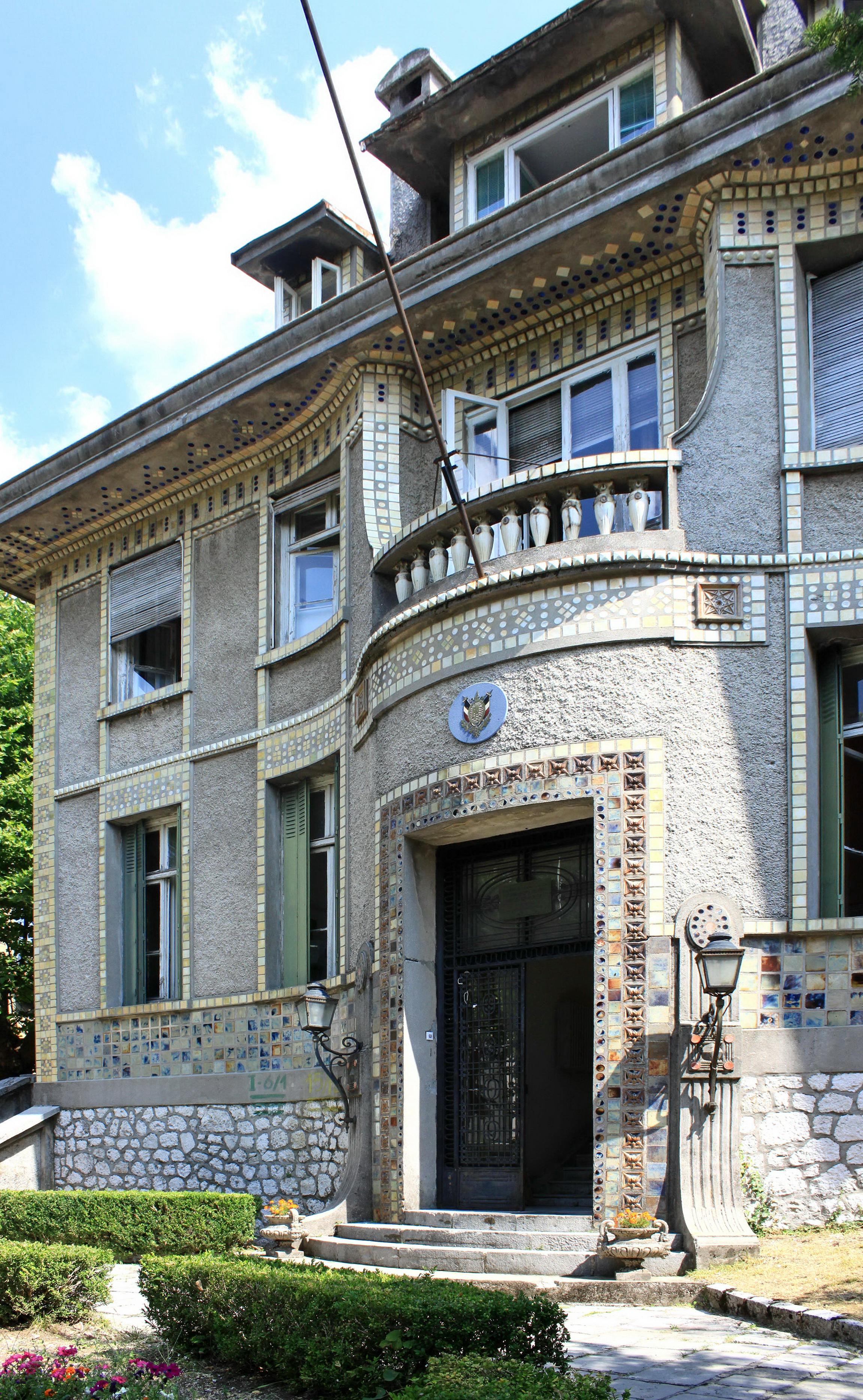 The former French Embassy. Cetinje, Montenegro.